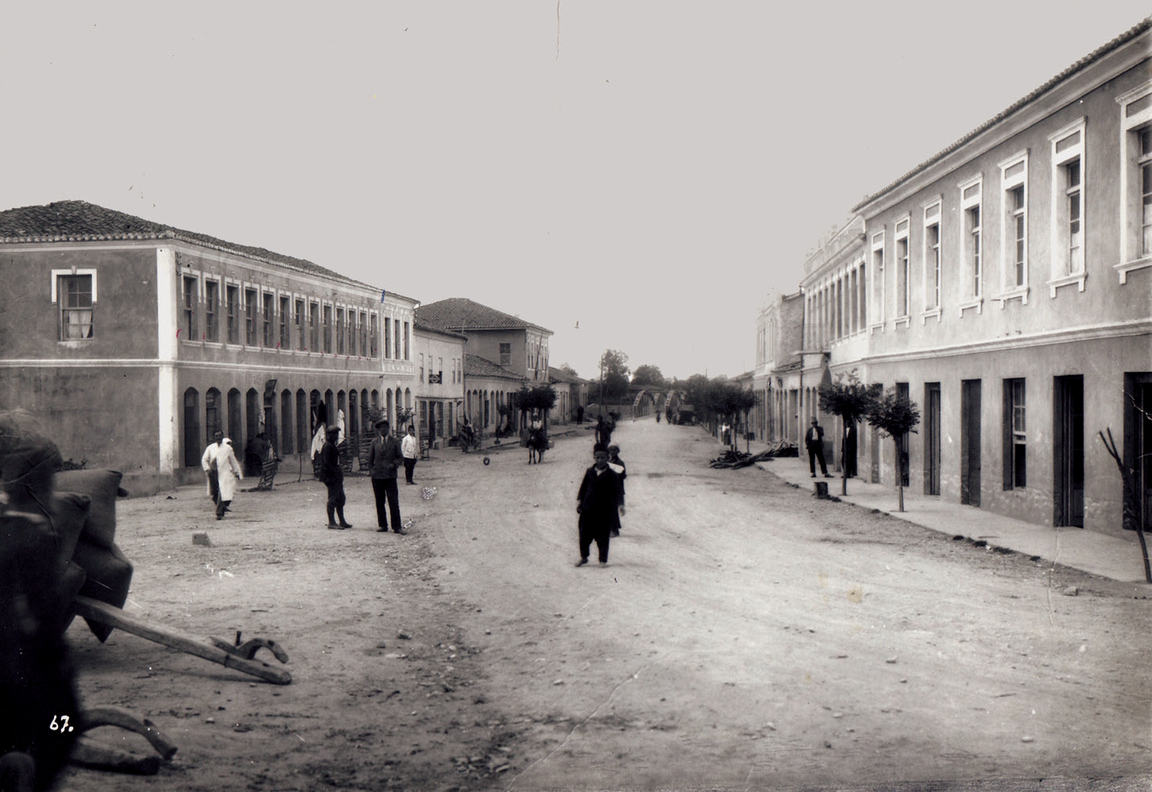 The center of the town of Shijak, Albania in 1935.